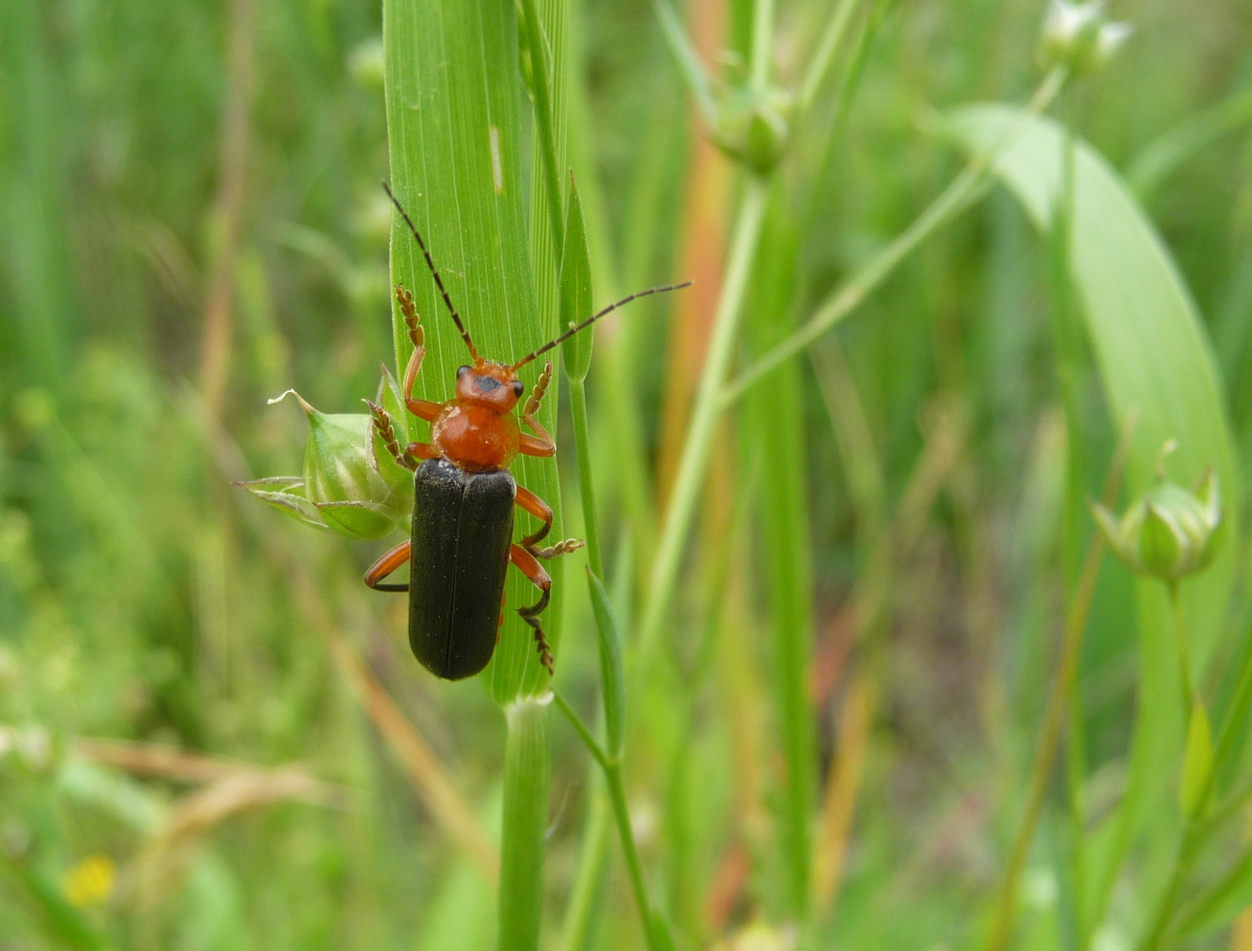 Cantharis livida, near Livorno, Italy